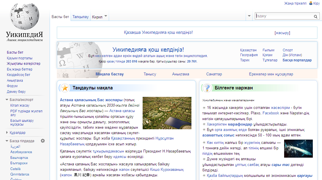 Kazakh Wikipedia main page screenshot